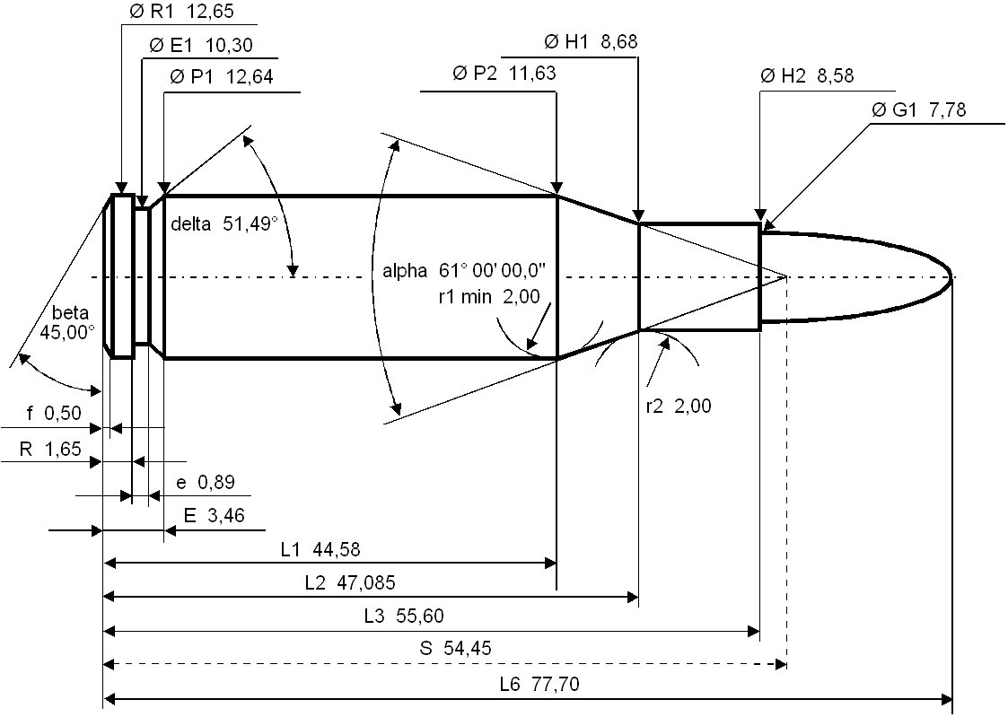 7.5 x 55 Swiss (GP11) maximum C.I.P. cartridge dimensions. All sizes in millimeters (mm).